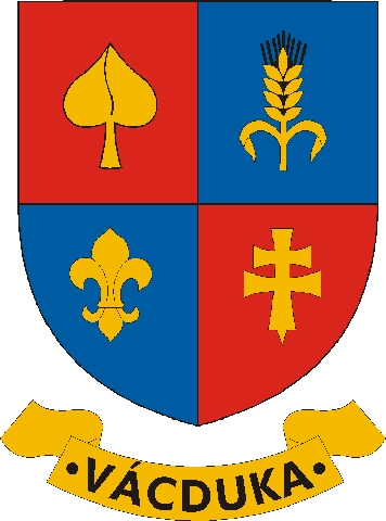 Coat of arms of Vácduka, Hungary